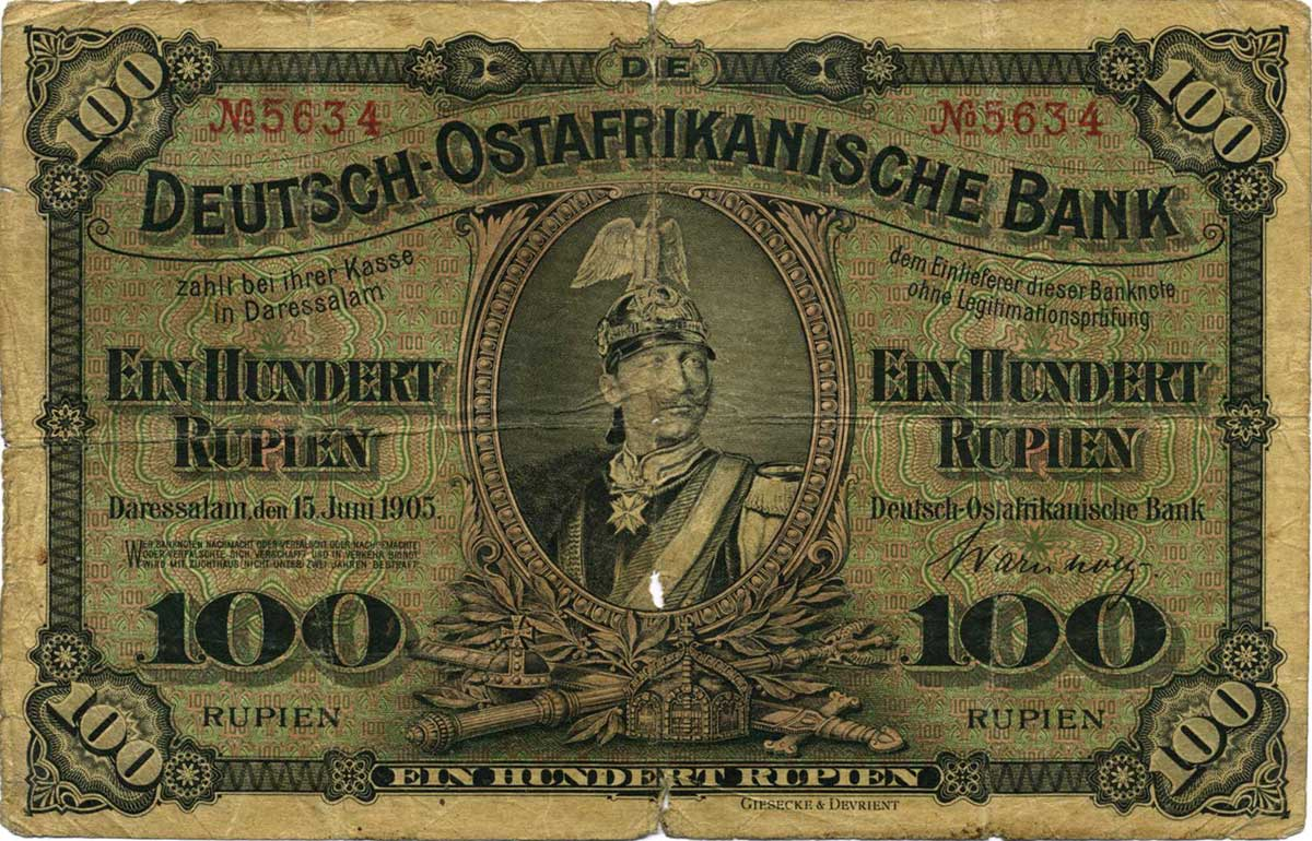 100 Rupien de l'Afrique de l'Est édités sous domination allemande le 15 juin 1905